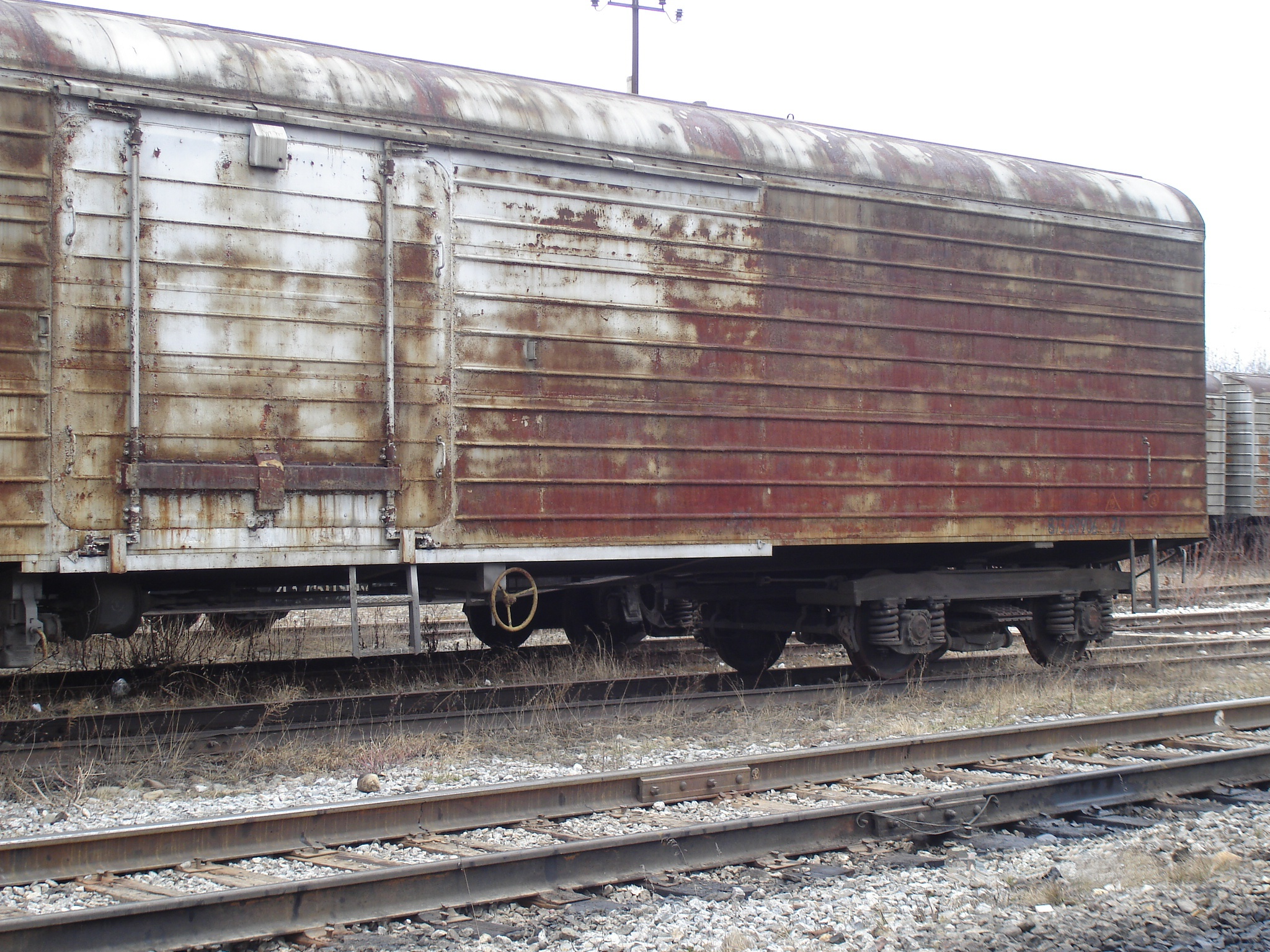 Abandoned refrigerator rail car in Urgal-1 station, Russia